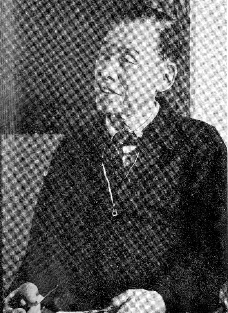 Rokuro Kitamura (1871 - 1961) was a Japanese female impersonator.